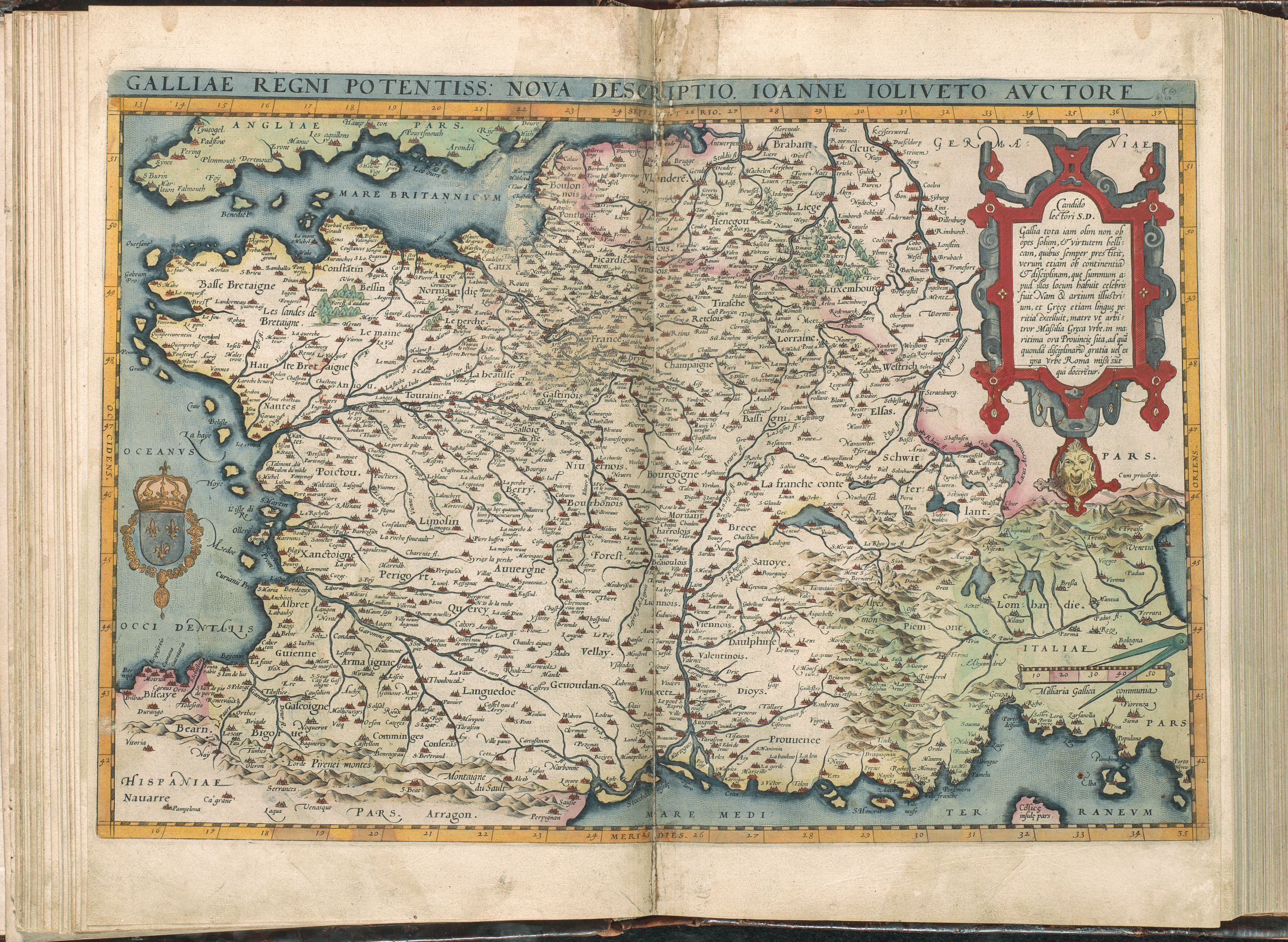 Plate '016av-016br' from the Atlas Ortelius by Abraham Ortelius. Original edition from 1571 with additions from 1573, 1579 and 1584. Complete description of this work (in Dutch) is available here. On this map France is shown.